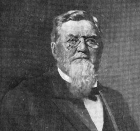 Lorrin A. Cooke (Connecticut Governor)